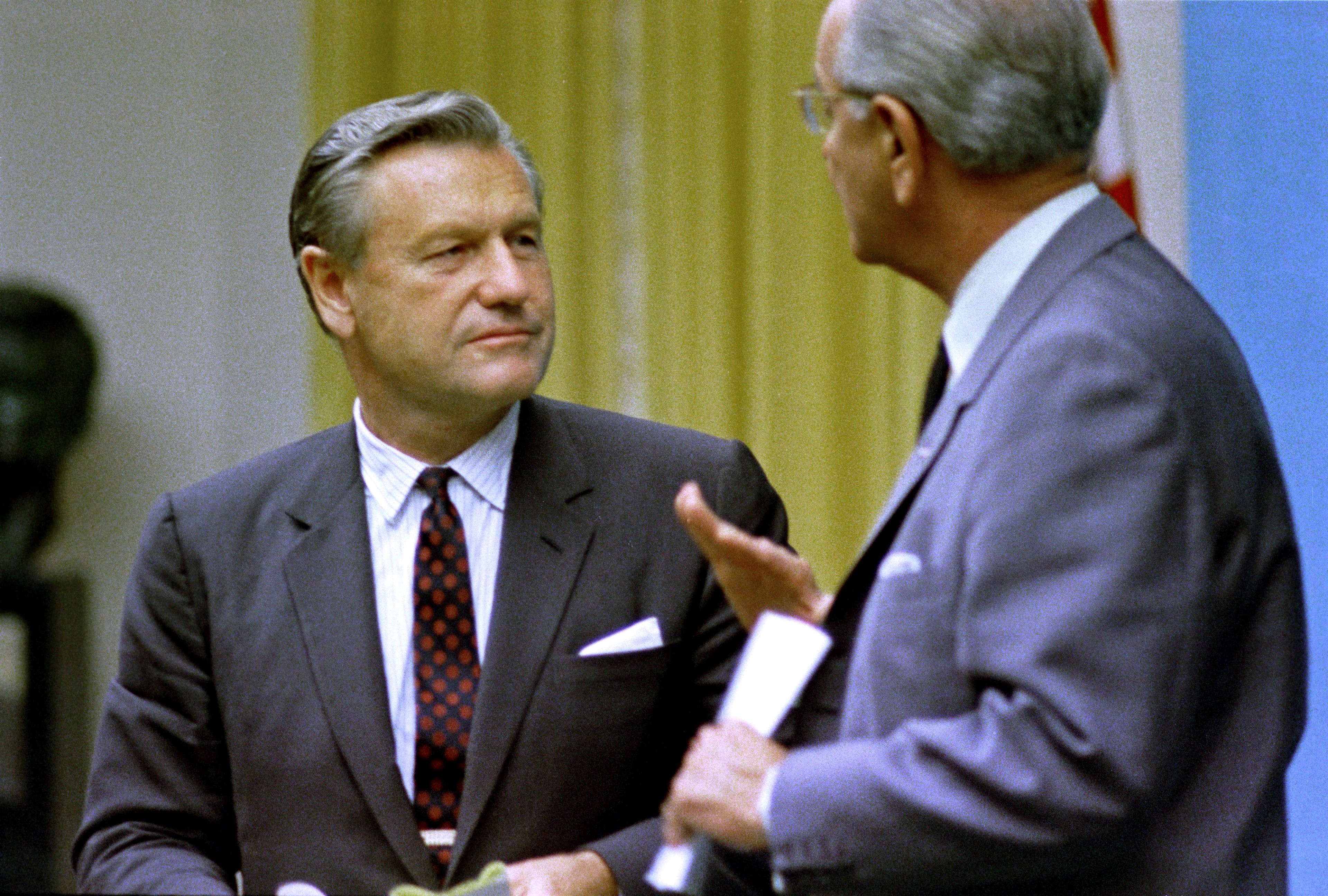 Nelson Rockefeller (left) with President Lyndon B. Johnson at the White House.